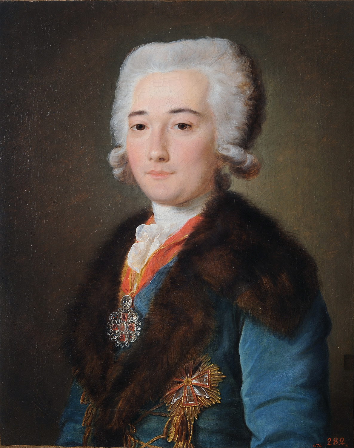 Count Dmitriev-Mamonov, Aleksandr Matveyevich (1758-1803) was a Russian lieutenant general and adjutant general.